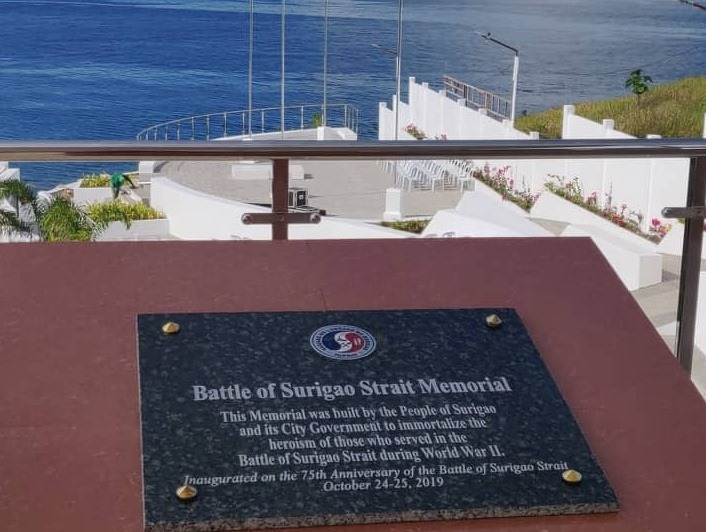 The Battle of Surigao Strait Plaque is installed on a pedestal overlooking the memorial.